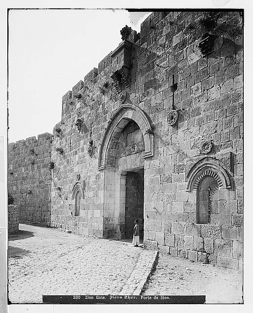 Jerusalem, Zion Gate between 1898 to 1914.